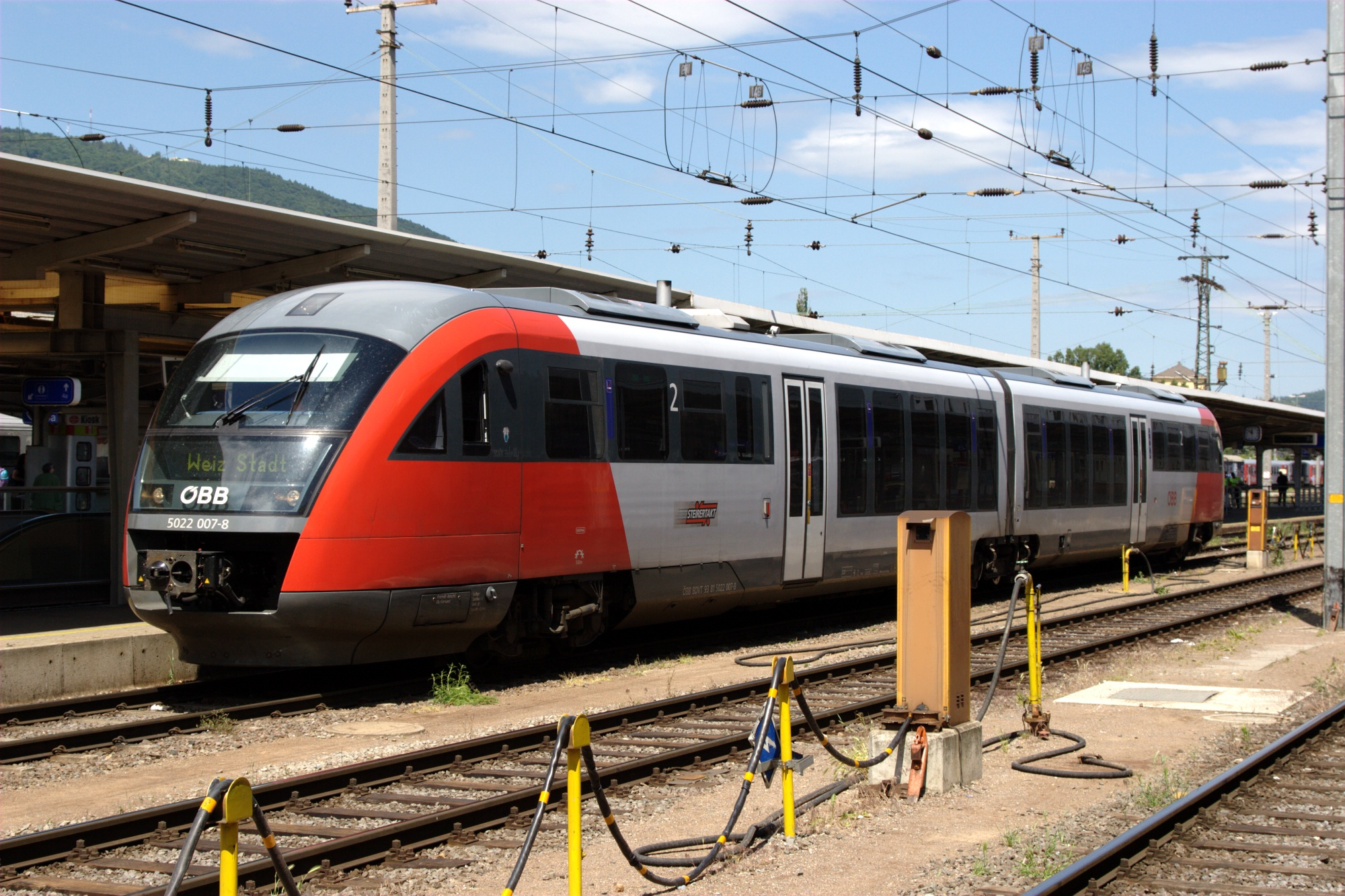 ÖBB Desiro diesel railcar 5022 007-8 in Graz Hauptbahnhof station